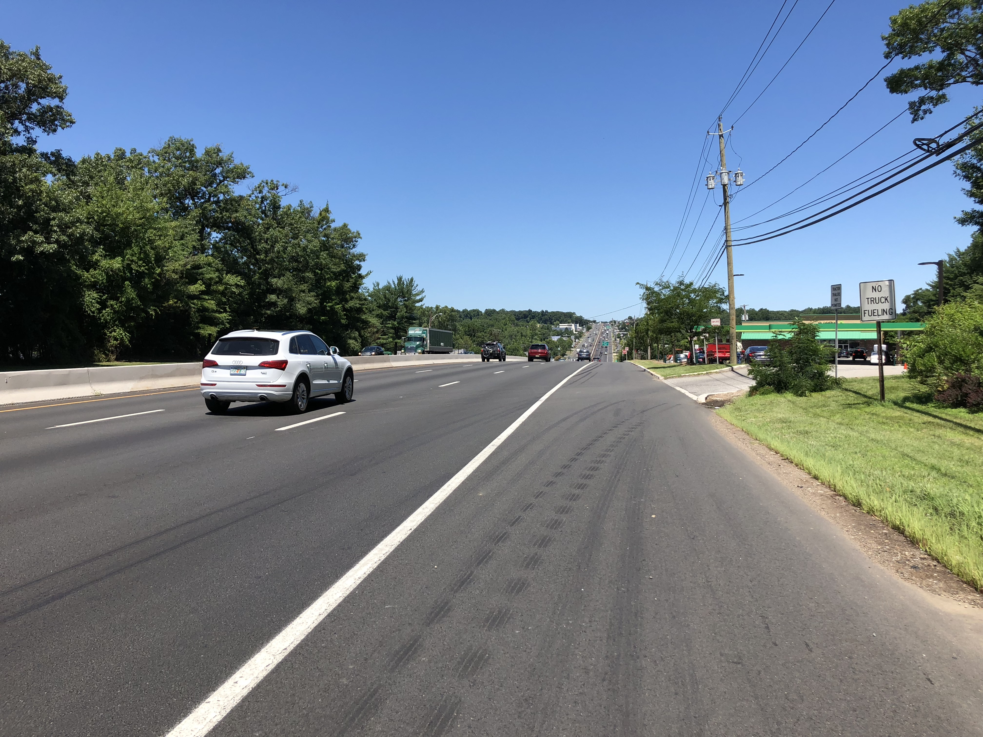 View north along New Jersey State Route 17 between Bergen County Route 90 (Allendale Avenue) and Pleasant Avenue in Allendale, Bergen County, New Jersey